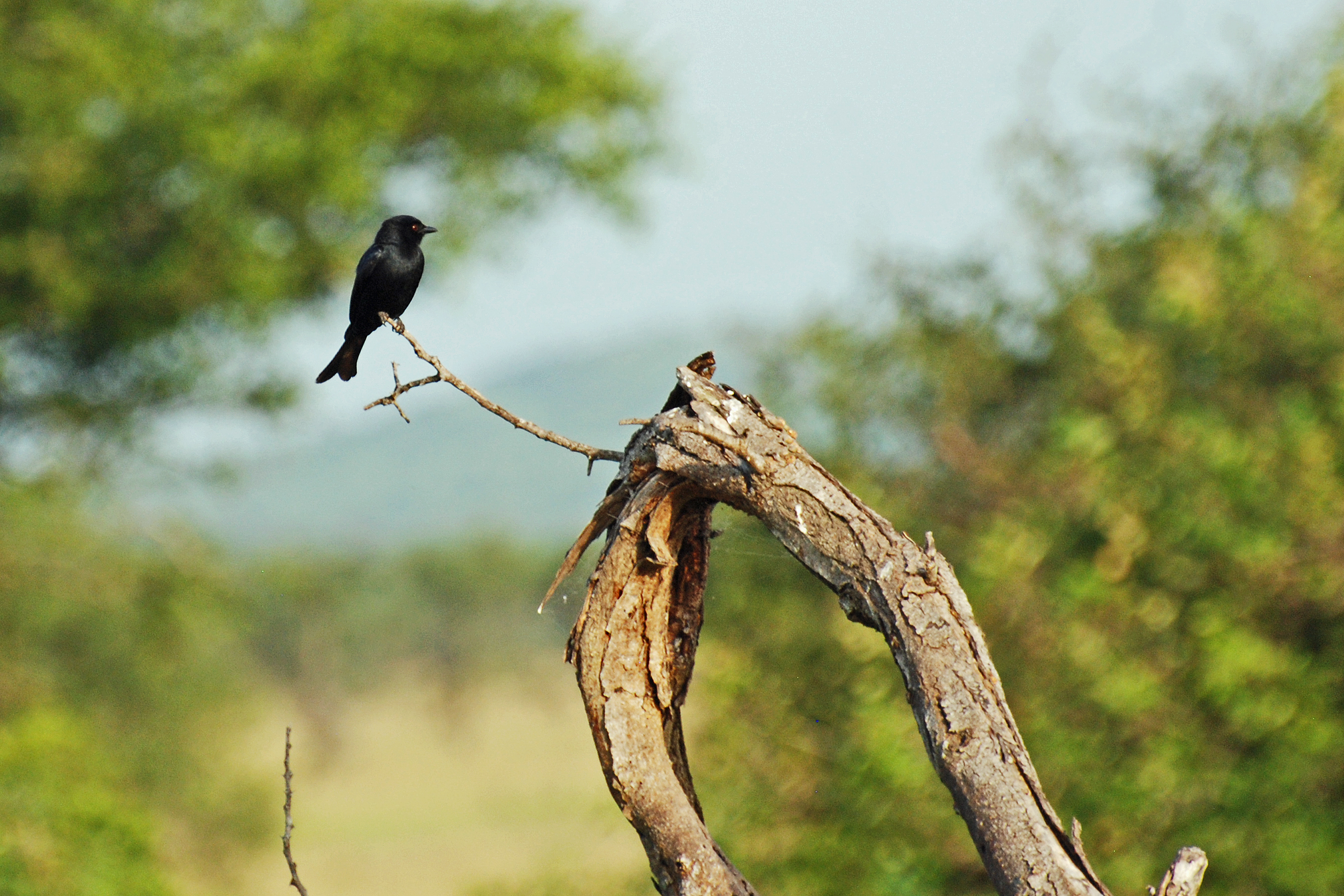 The Fork-tailed Drongo (Dicrurus adsimilis), also called the Common Drongo, African Drongo or Savanna Drongo, is a drongo, a type of small passerine bird of the Old World tropics.